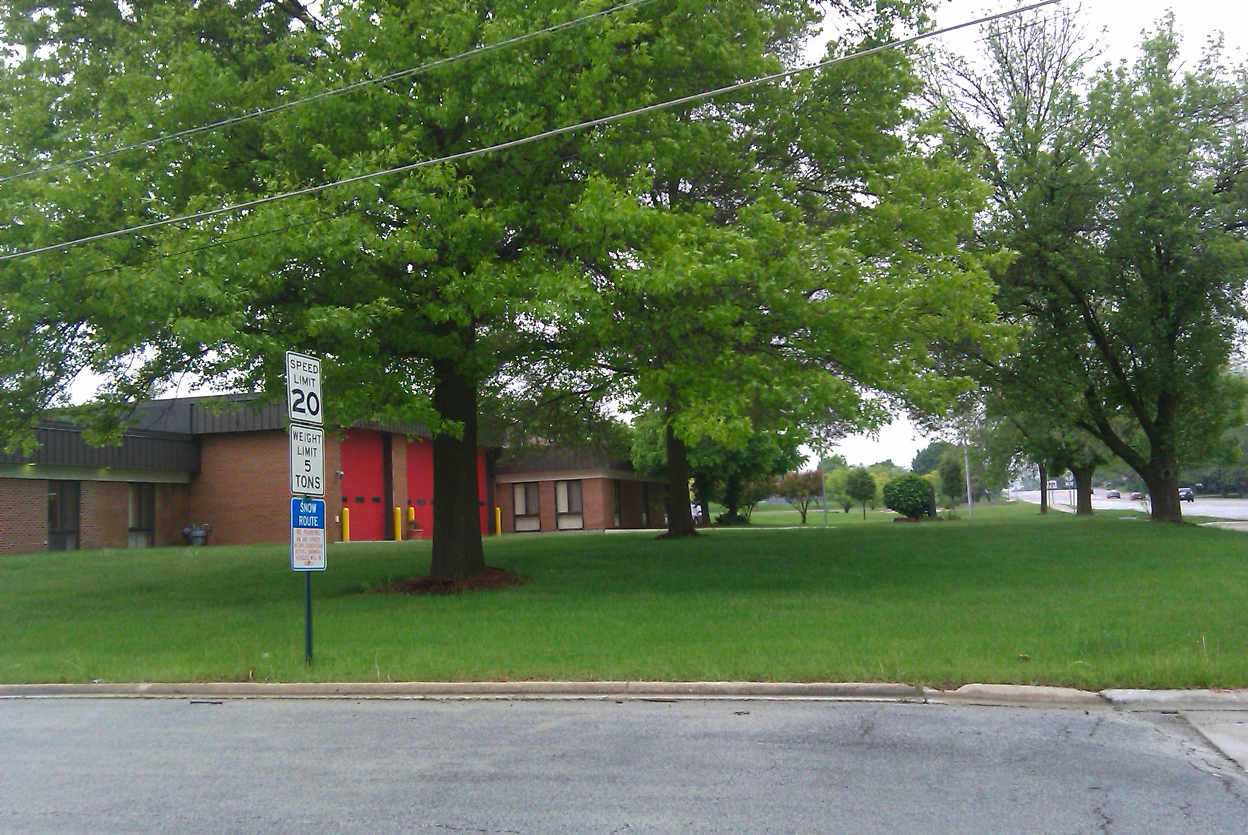 Image of the Hazel Crest (Illinois) Fire Department, taken at the intersection of 175th and Stonebridge.